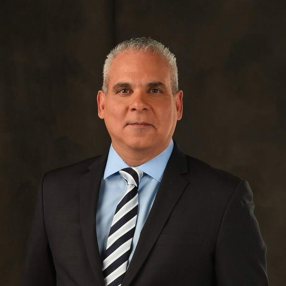 Baseball Oficial Narrator for ESPN latin america.